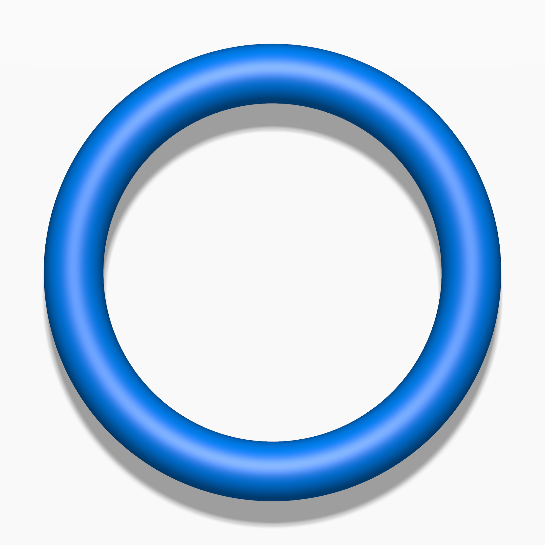 The unknot.